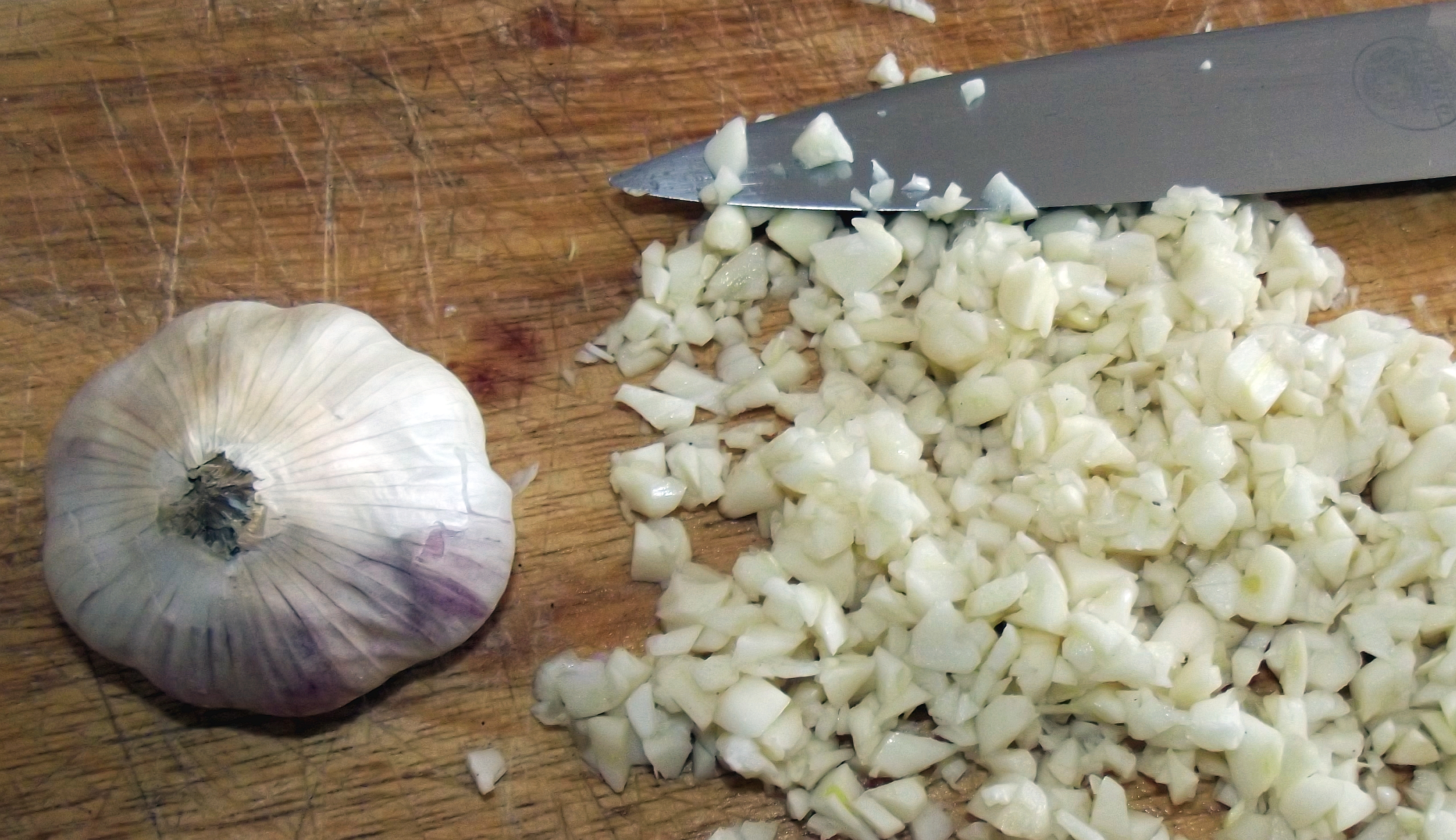 Aglio di Voghiera: sliced cloves